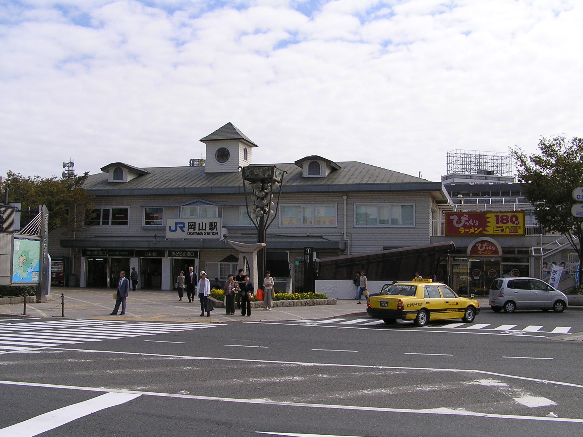 Former Okayama Station west entrance (1938 - 2007)